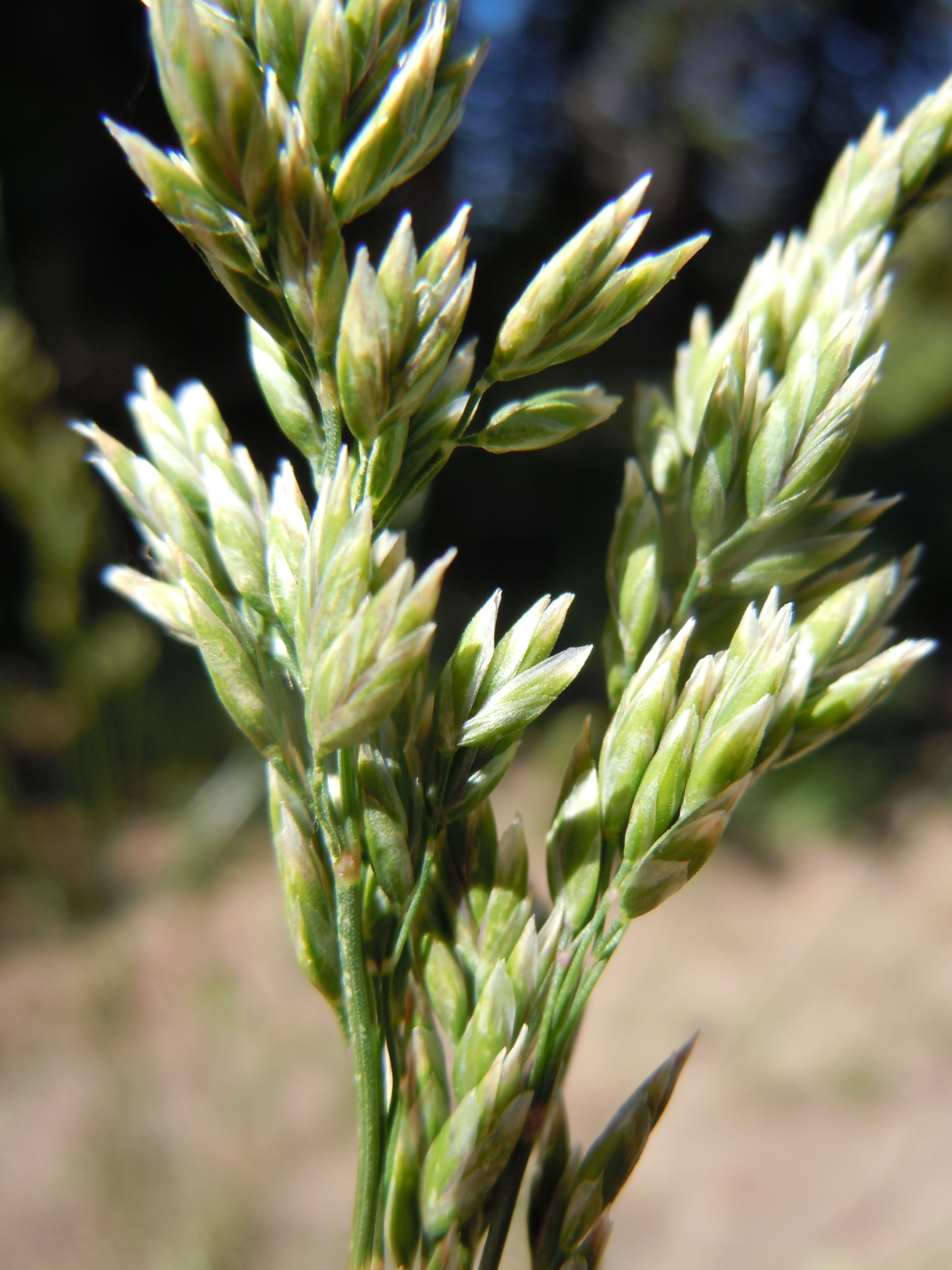 Poa fendleriana (muttongrass) when growing in sagebrush steppe or high alpine and subalpine settings commonly assumes a short-statured less-hairy growth form referred to as Poa cusickii. When growing in protected but otherwise open settings, such as the understory of subalpine Pinus albicaulis, Poa cusickii looks very much like Poa fendleriana in its tall stature (about 0.5 m tall) and in having a compacted greenish inflorescences (albeit with short hairs on the florets).